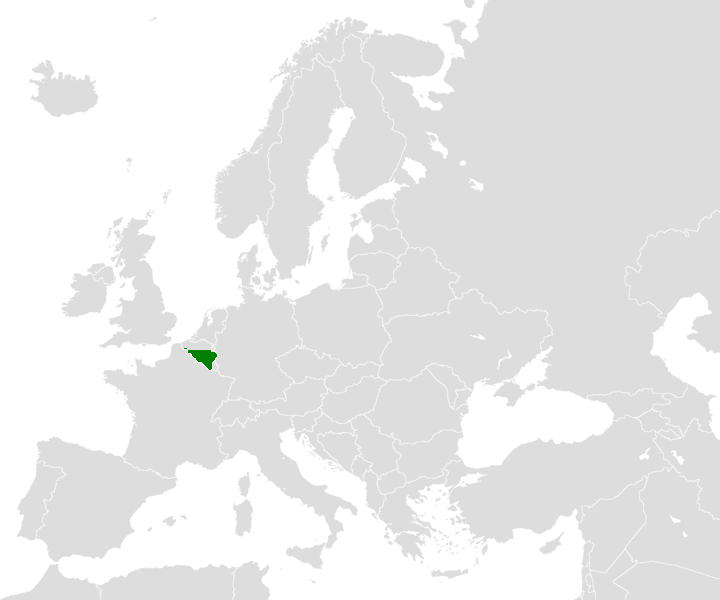 Based on Image:Blank map europe.png Own work, all rights released